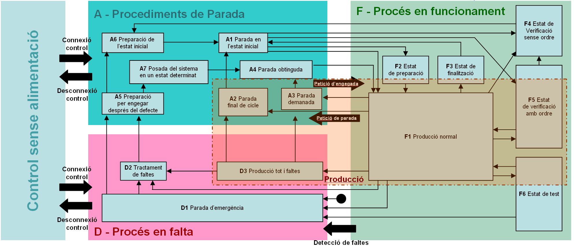 GEMMA guide diagram